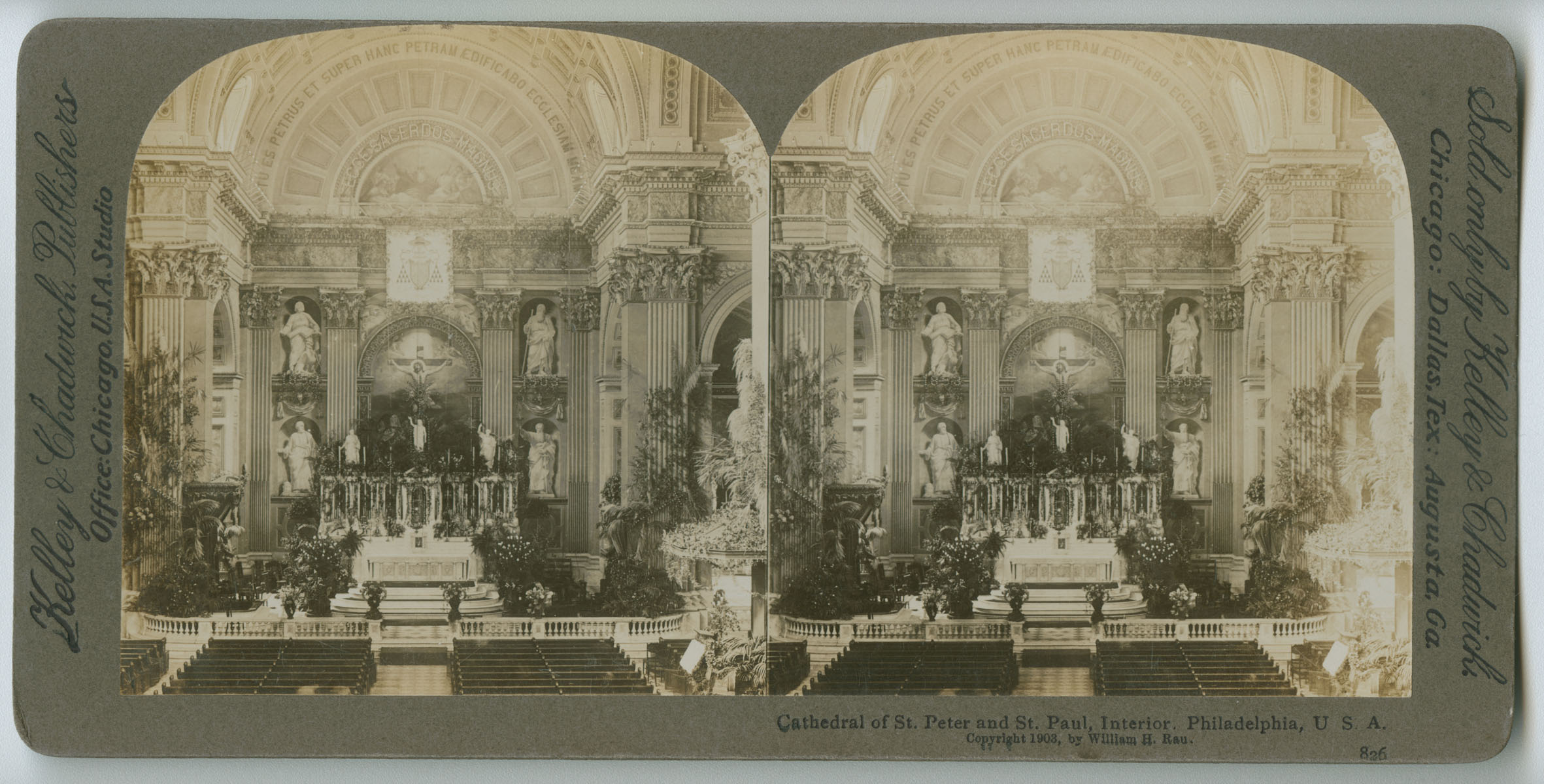 Shows the interior, particularly the altar, of Cathedral of Saint Peter and Saint Paul in Philadelphia. Rows of pews are visible in the foreground. Biblical imagery and statues adorn the walls, ceiling, and alcove behind the alter. The date 1853 appears at the base of the statue on the upper left-hand side of the wall with the alter, while the date 1903 appears at the base of the statue on the upper right-hand side of the wall with the alter. View also shows display of flowers and plants. Accession number: P.2011.47.729